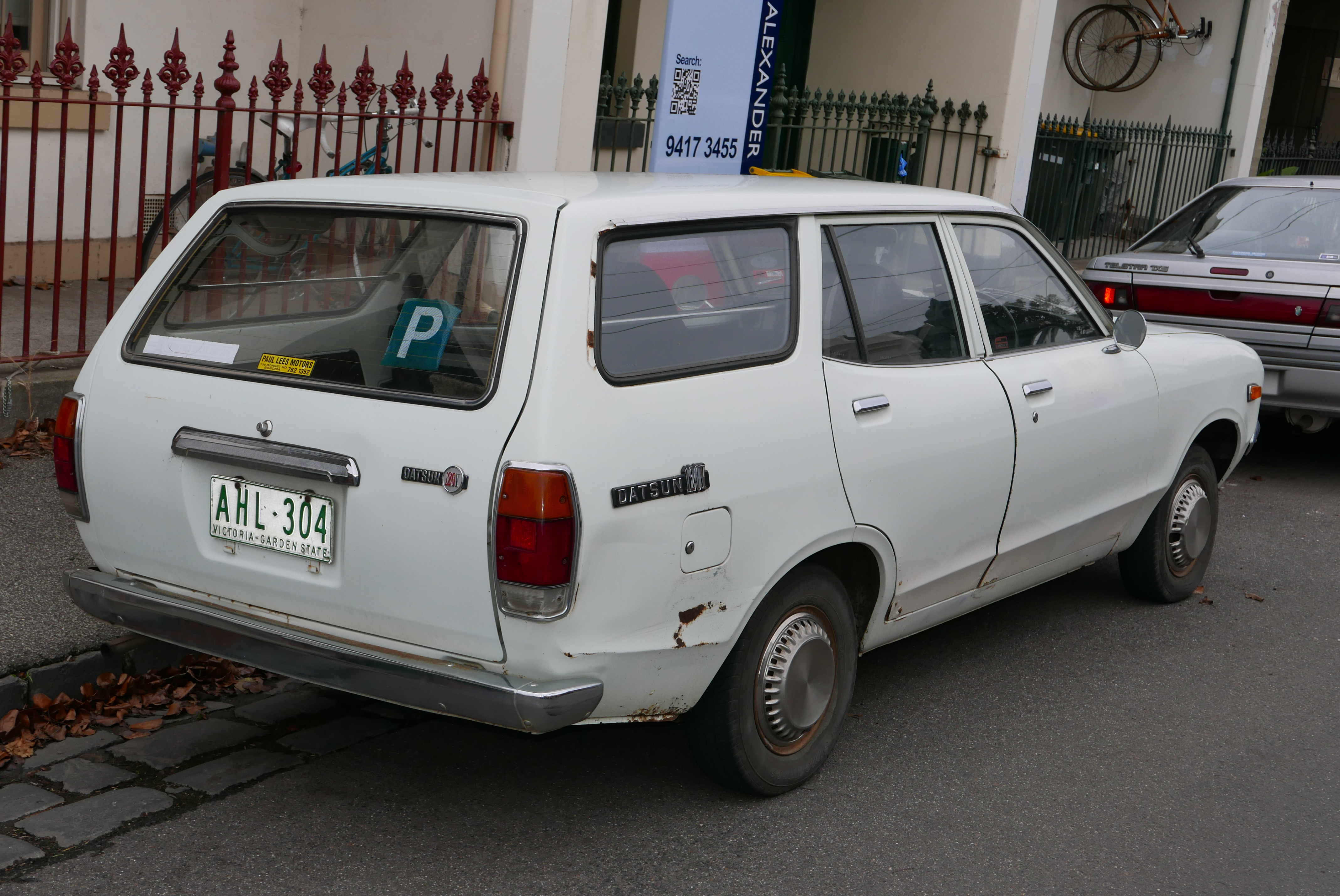 1978 Datsun 120Y (B210) station wagon. Photographed in Fitzroy North, Victoria, Australia. Vehicle registration enquiry results Jurisdiction Victoria Registration AHL304 Chassis code Not available Engine code A12192470D Compliance date Not available Year of manufacture 1978